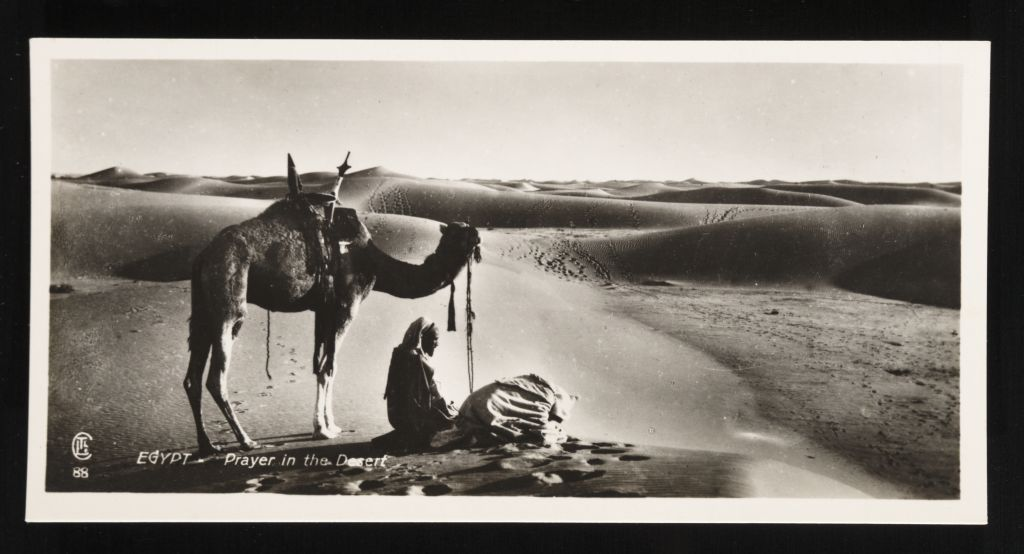 2 men pray next to a camel in the middle of the desert